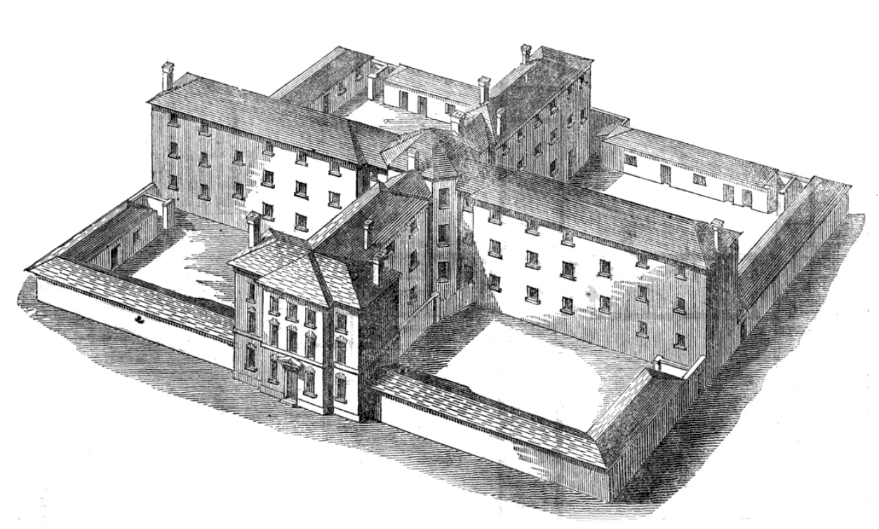 As title